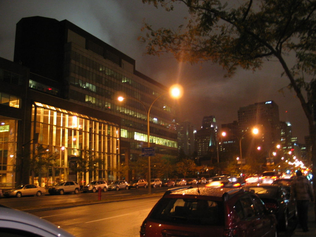 the evening shot of the Rene Levesque Boulevard, Northward in Downtown Montreal